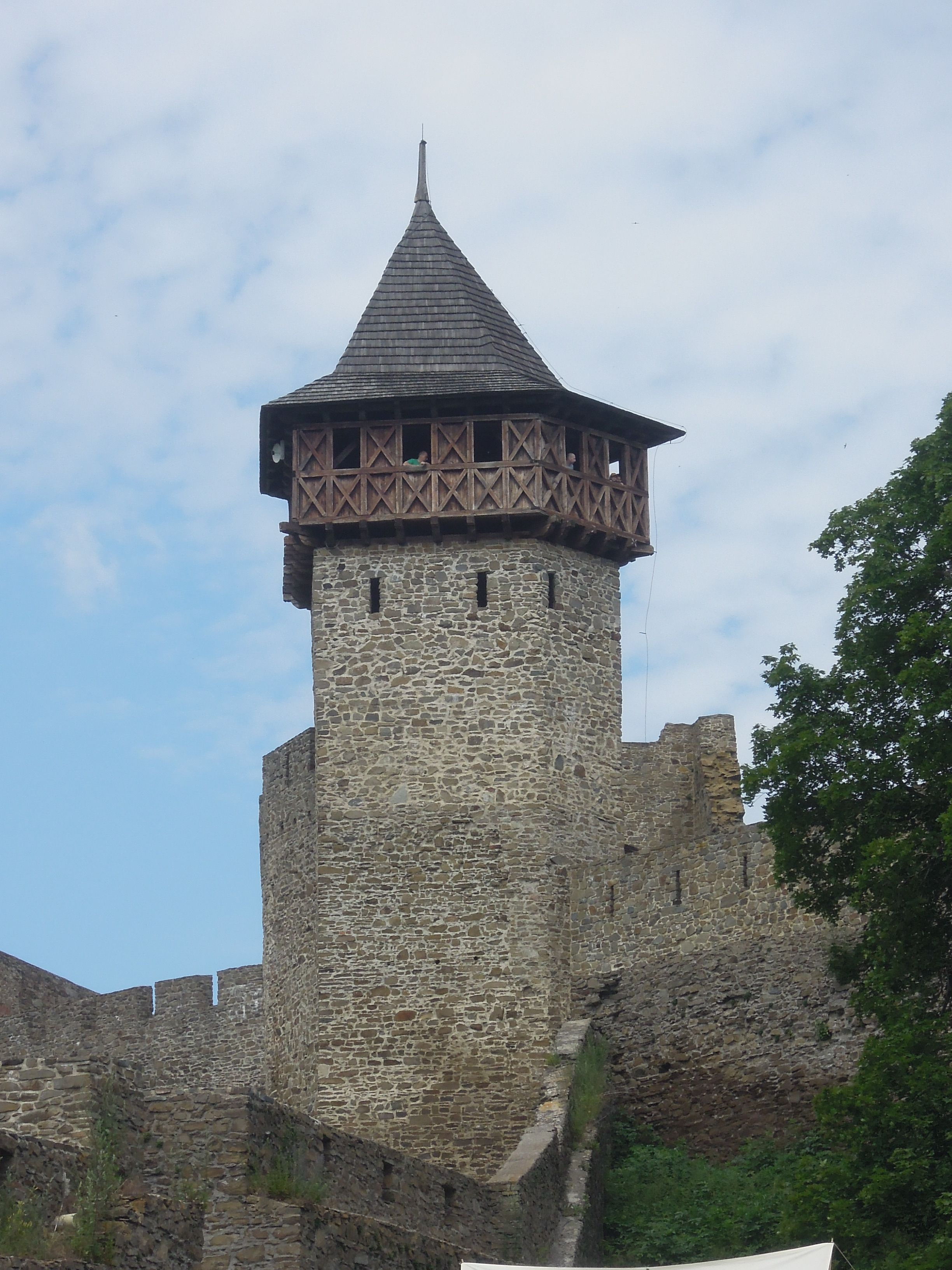 Castle Helfštýn near Týn nad Bečvou, Přerov District, Olomouc Region, Czech Republic